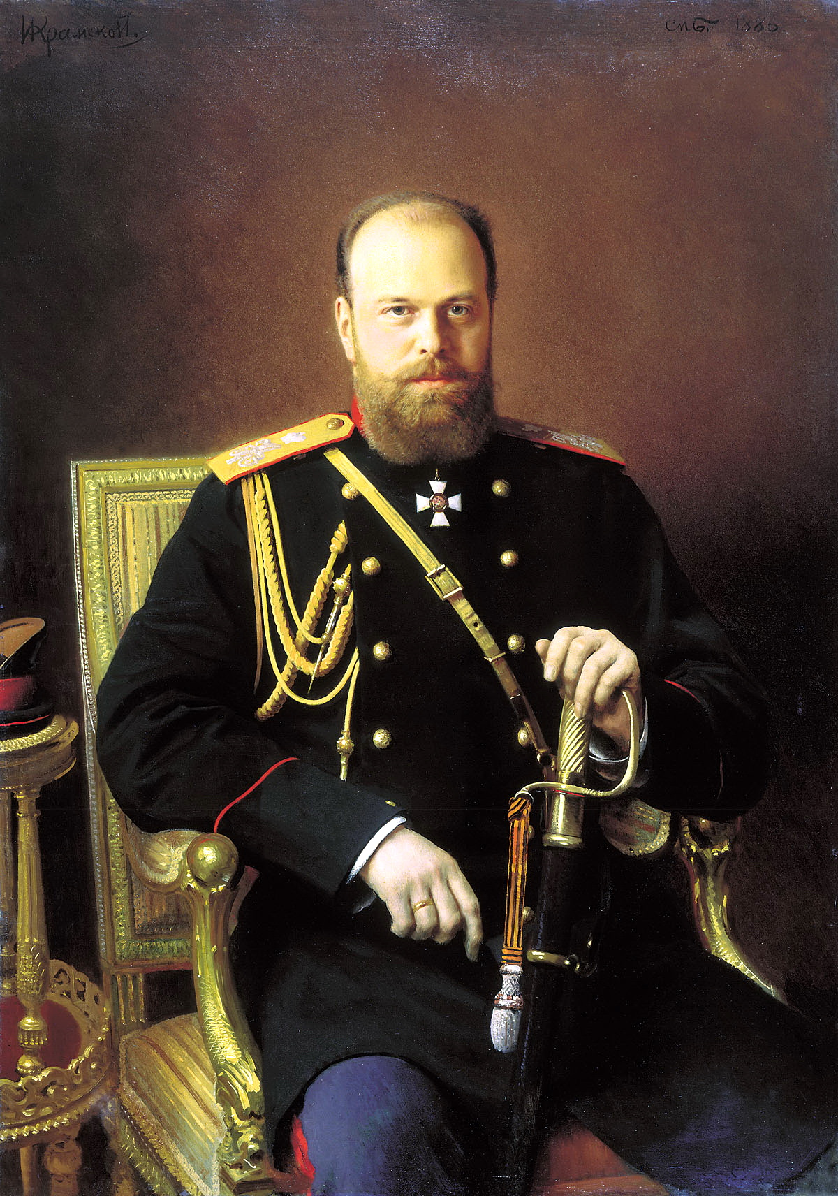 Portrait of Alexander III (1845-1894), the Russian Tsar, oil on canvas